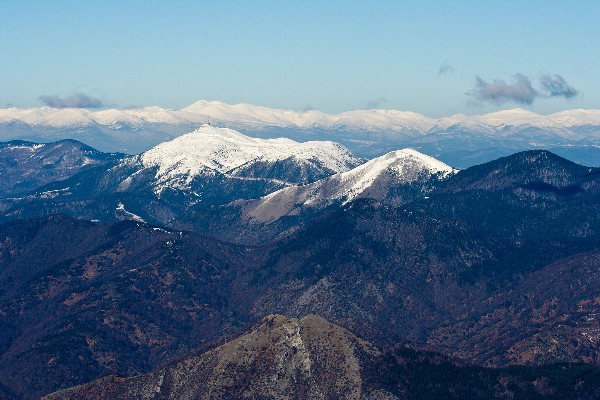 Sveshtnik summit in Southern Pirin mountain, Bulgaria. Picture taken from the nearby Alibotush mountain.